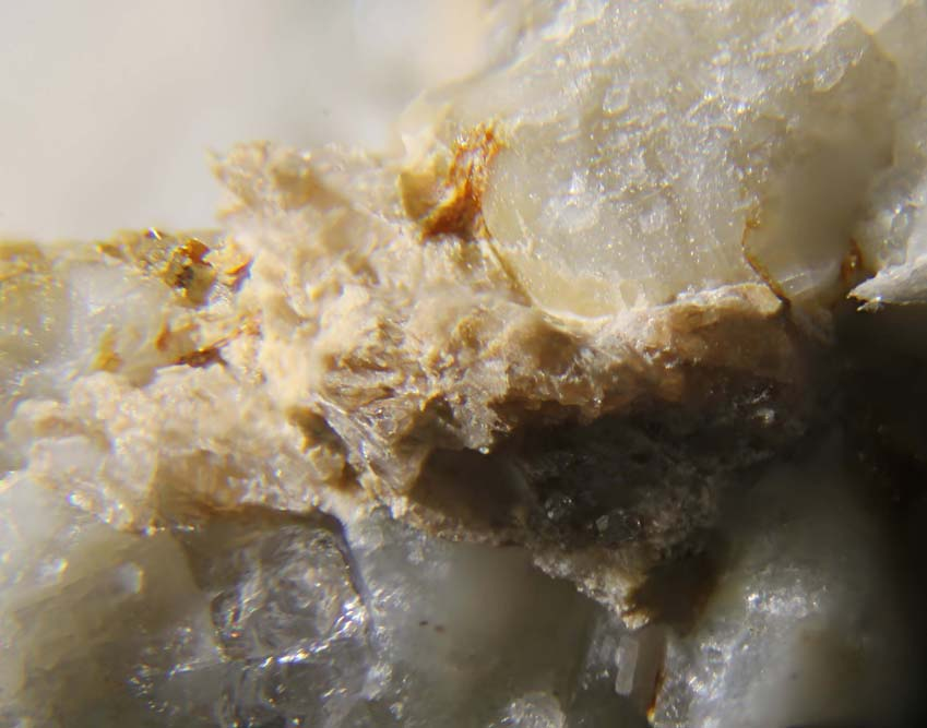 Pale tan crystal aggregates of dalyite associated to very minoritary orange brown janhaugite. Both are very rare zirconium minerals. From: Gjerdingen, Nordmarka, Lunner, Oppland, Norway.